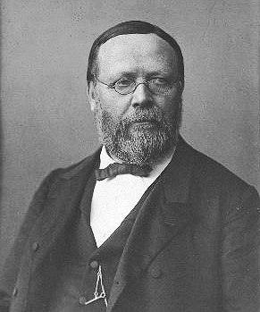 Krišjānis Valdemārs, Latvian writer and folklorist